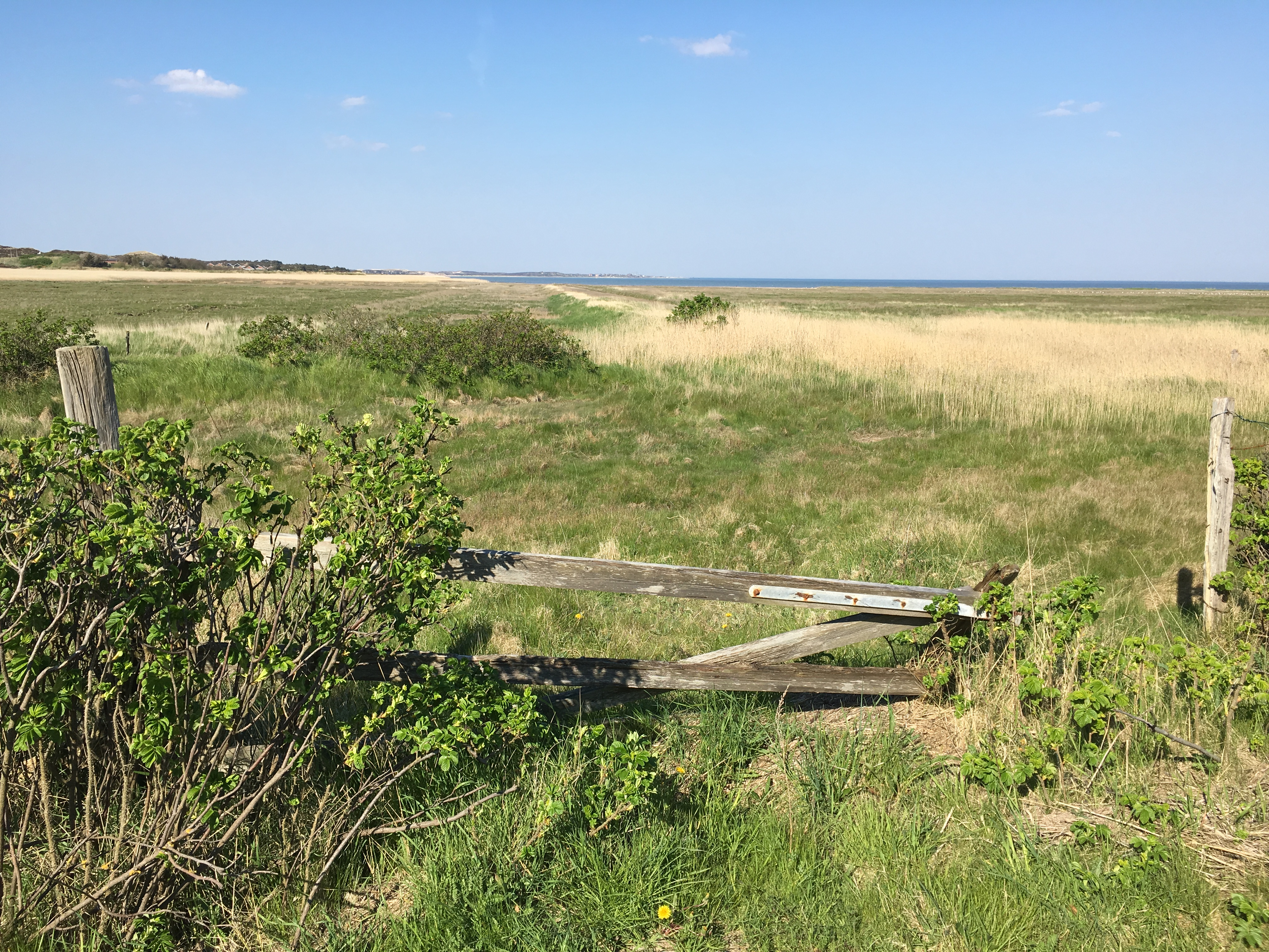 Kampen auf Sylt, Wattseite. Blick auf List über das Naturschutzgebiet Nielönn.